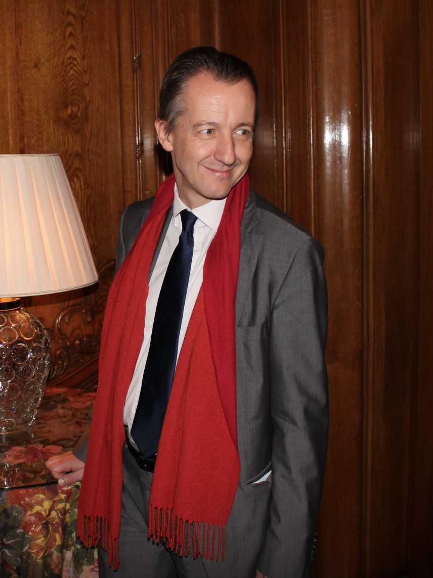 French journalist and columnist Christophe Barbier.